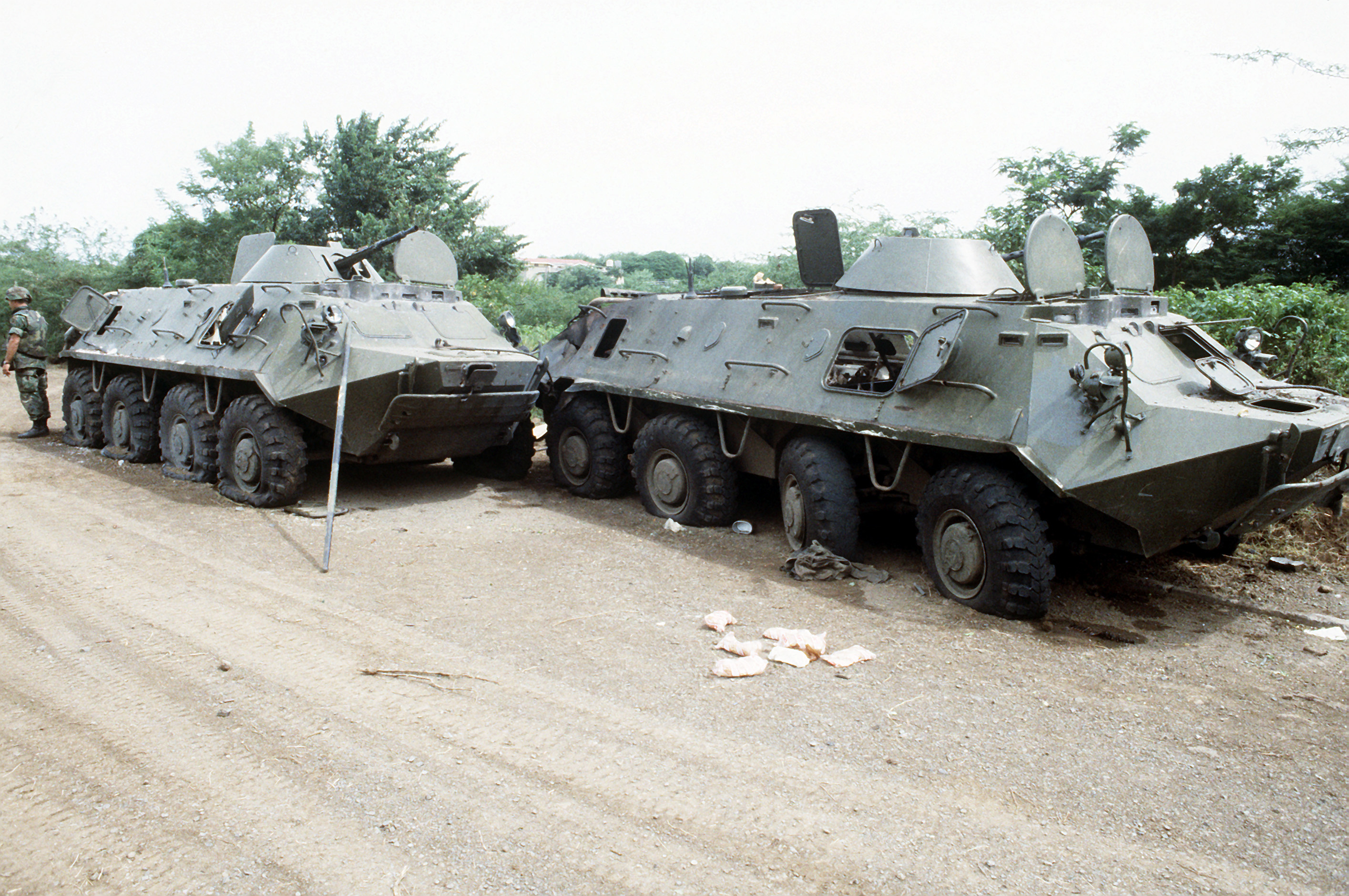 Soviet-built BTR-60 armored personnel carriers seized by U.S. military personnel during Operation Urgent Fury..